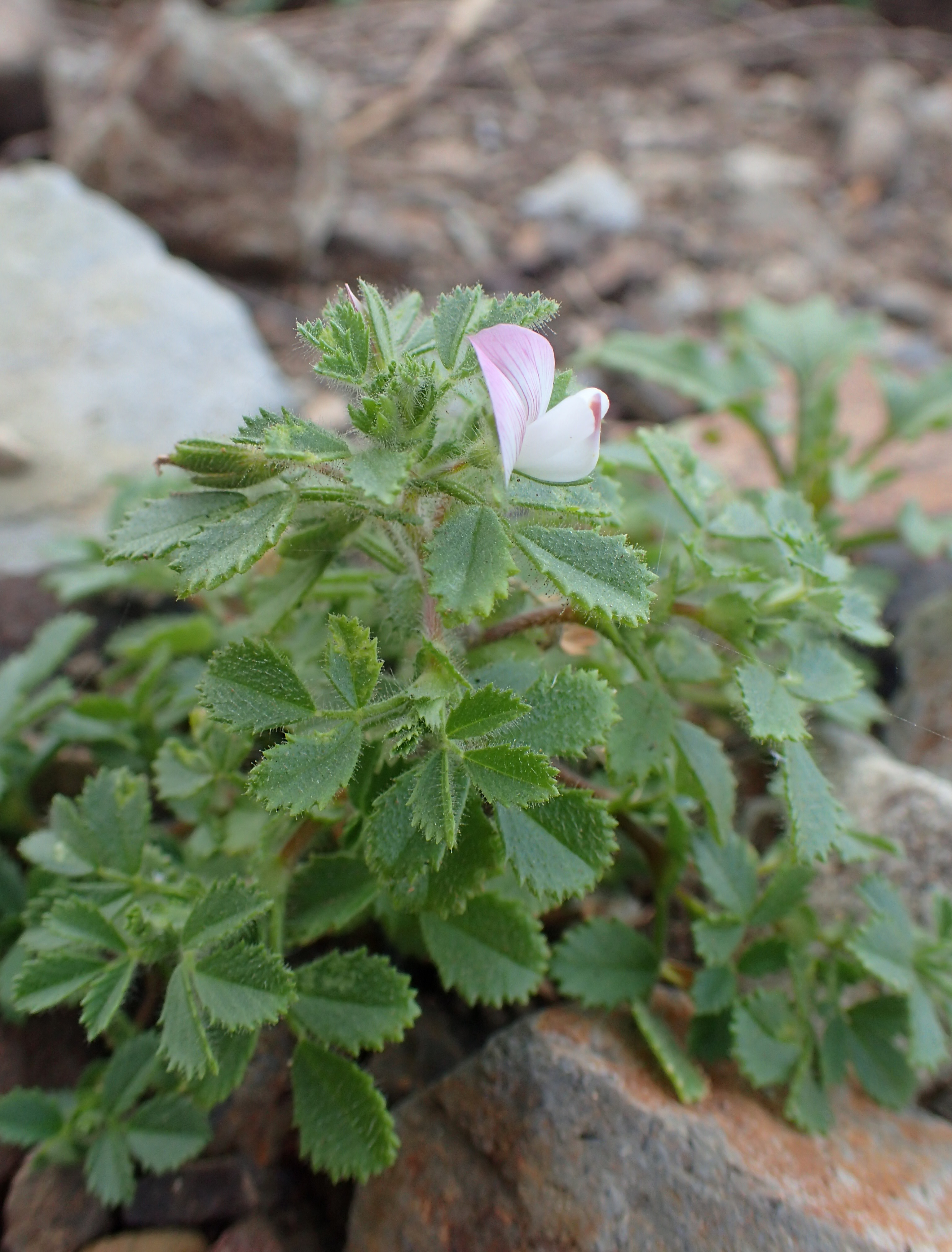 Ononis tournefortii near Roque de los Animas, northern Tenerife, Canary Islands